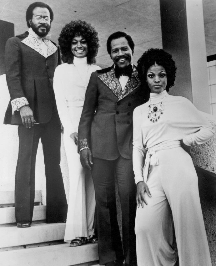 Publicity photo of the musical group Friends of Distinction.